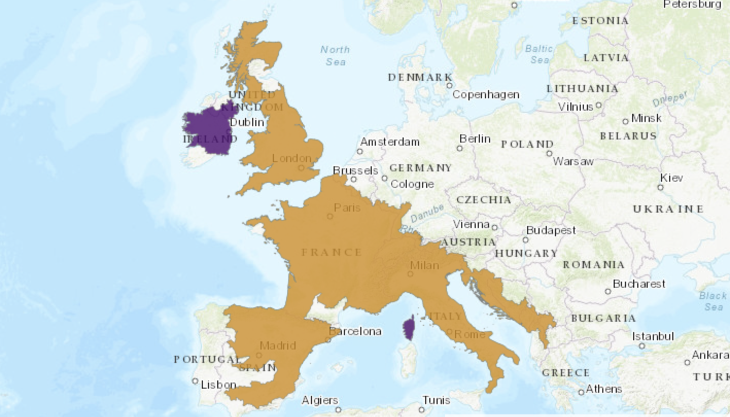 Útbreyðsla EFH um Evrópu